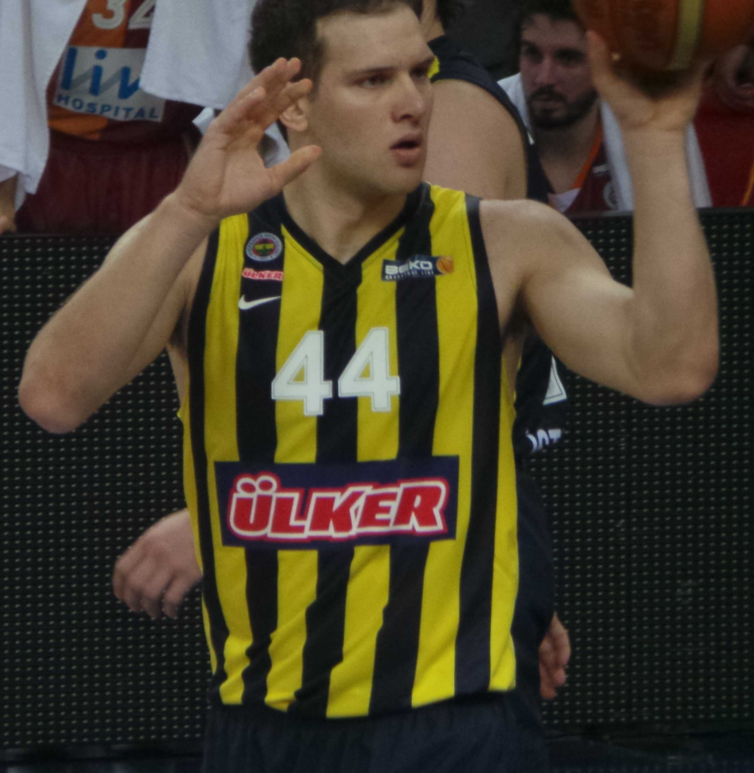 Bojan Bogdanović